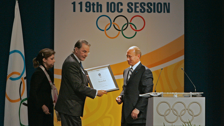 GUATEMALA. At the opening ceremony of the 119th session of the International Olympic Committee.